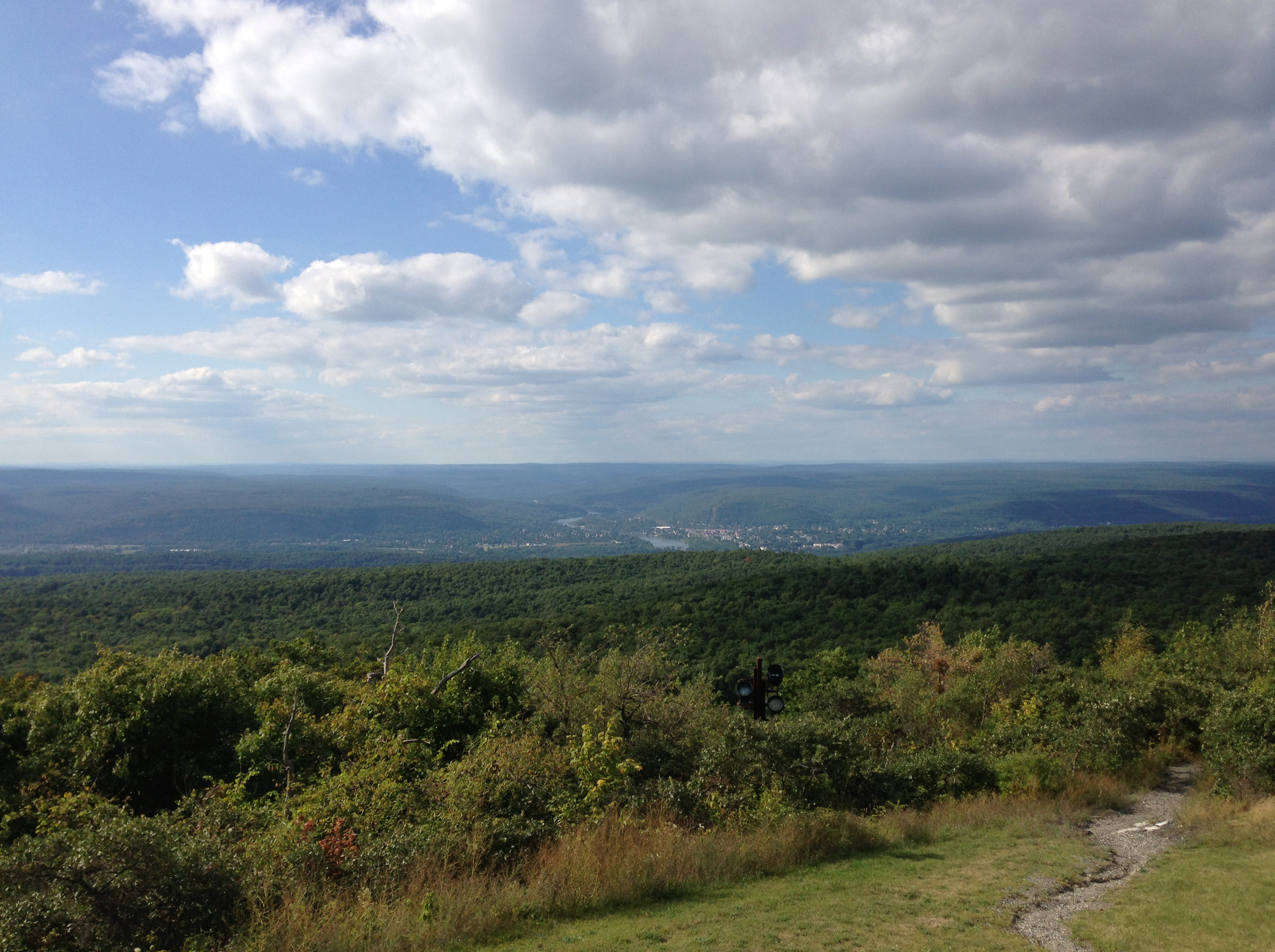 View northwest from the north corner of the base of High Point Monument in High Point State Park, New Jersey